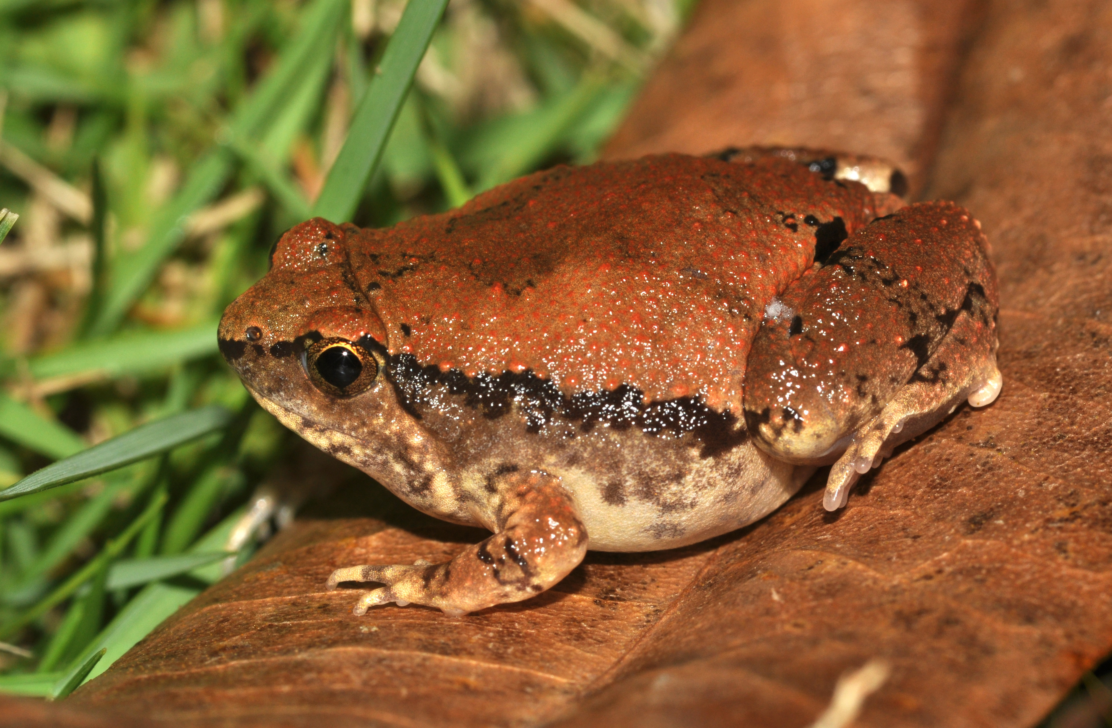 Side view of M.rubra from pondicherry